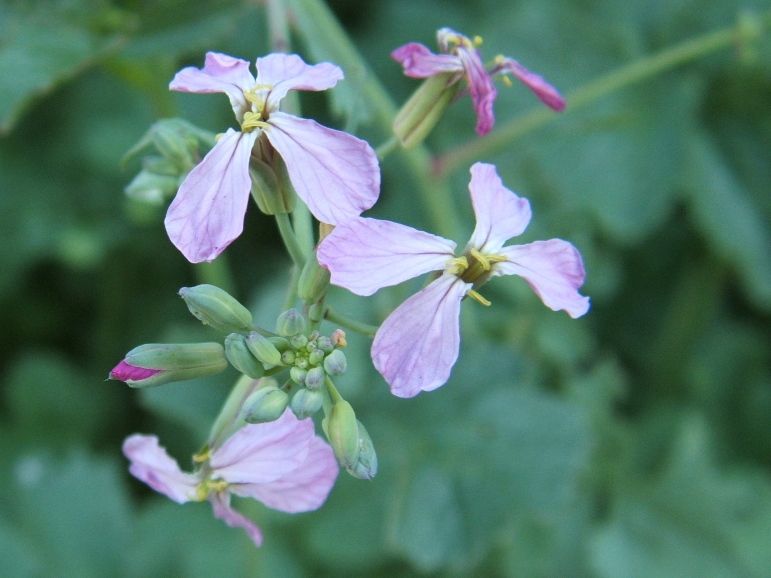 Raphanus sativus (flowers)